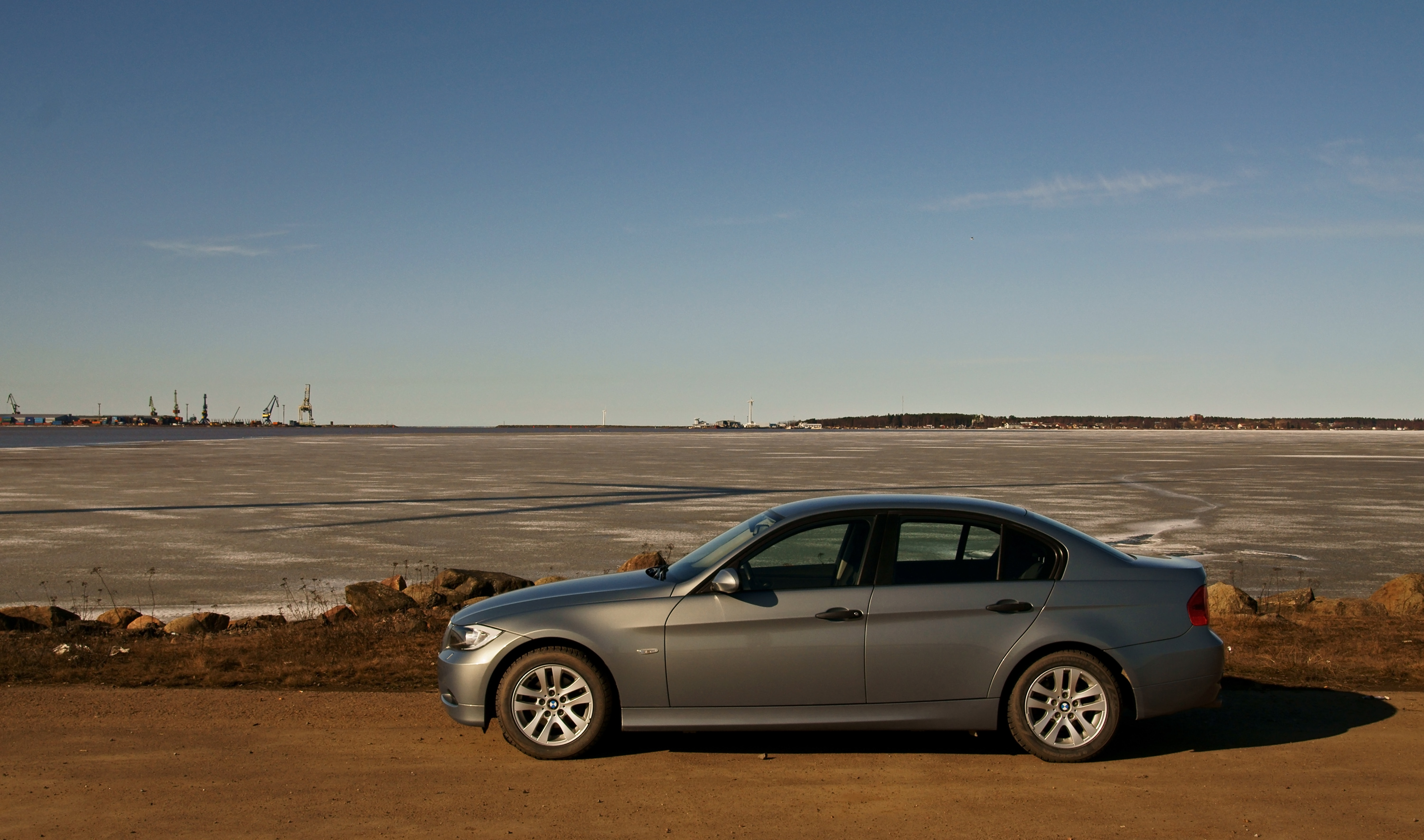 BMW 320i -05 (E90) in Kirrinsanta.